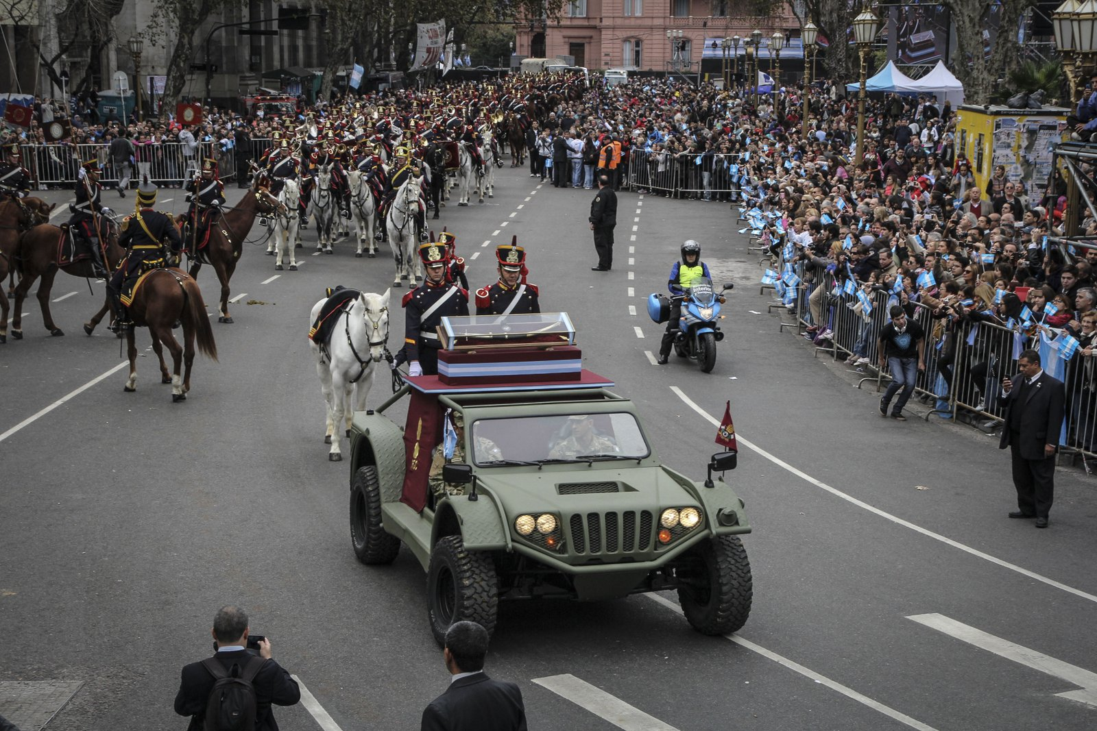 Buenos Aires, 24 de mayo de 2015 - La presidenta de la Nación, Cristina Fernández de Kirchner, encabezó el acto en el cual el Museo Histórico Nacional recibió el sable corvo de San Martín para exhibirlo al público. Acompañaron a la presidenta la ministra de Cultura de la Nación, Teresa Parodi; la directora del Museo Histórico Nacional, Araceli Bellotta ydemás funcionarios. Fotos: Ministerio de Cultura de la Nación